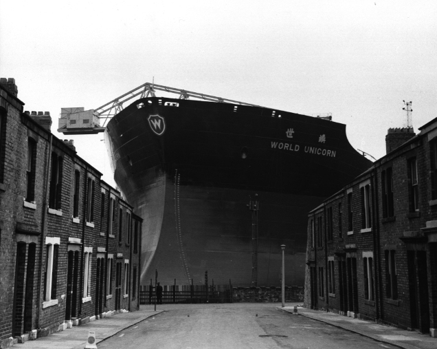 World Unicorn, built by the shipbuilders Swan Hunter and Wigham Richardson Ltd, at the Wallsend shipyard, Tyneside in 1973. We're happy for you to share this digital image within the spirit of The Commons. Please cite 'Tyne & Wear Archives & Museums' when reusing. Certain restrictions on high quality reproductions and commercial use of the original physical version apply though; if you're unsure please . To purchase a hi-res copy please quoting the title and reference number.